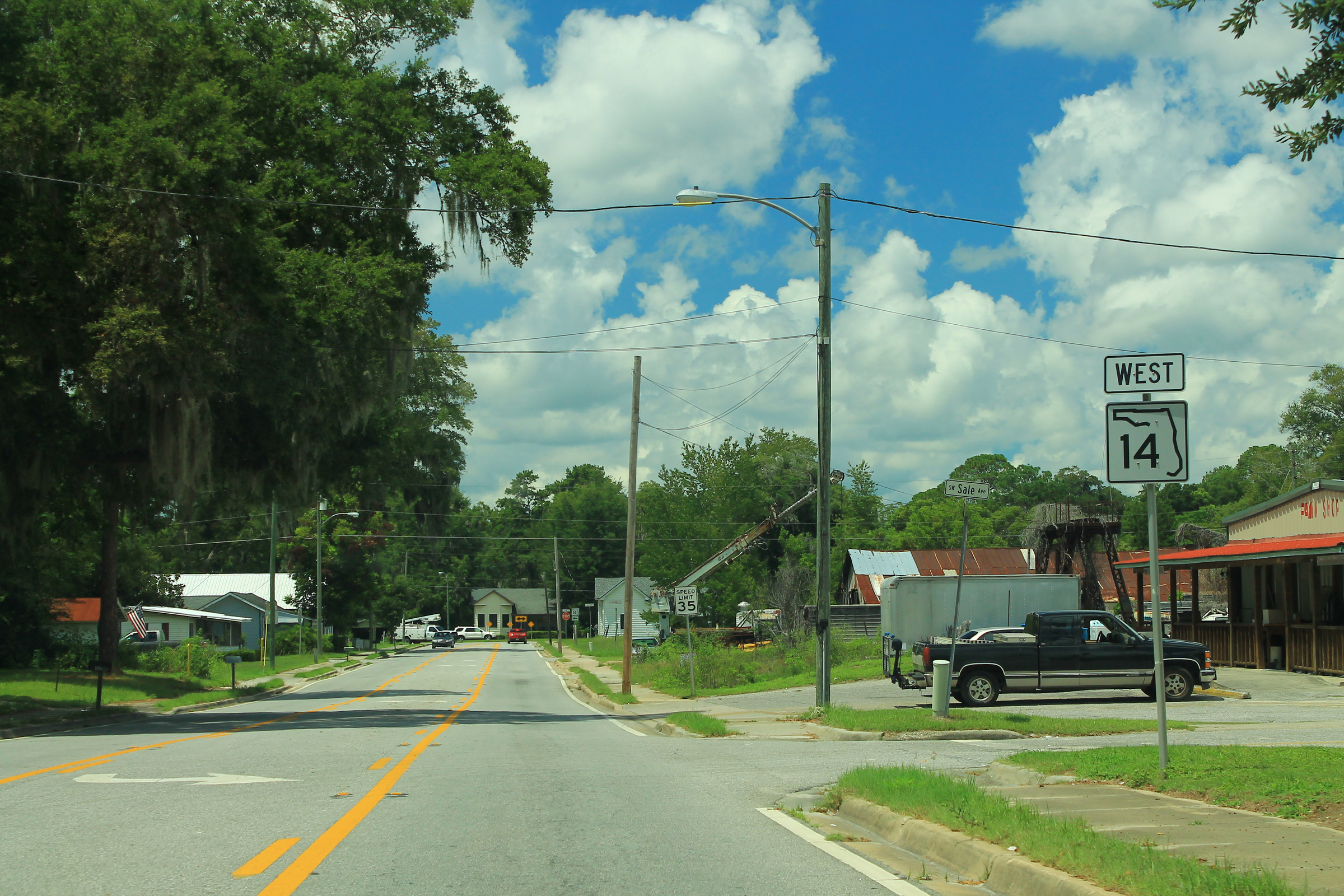 FL14wSignRoad-Madison